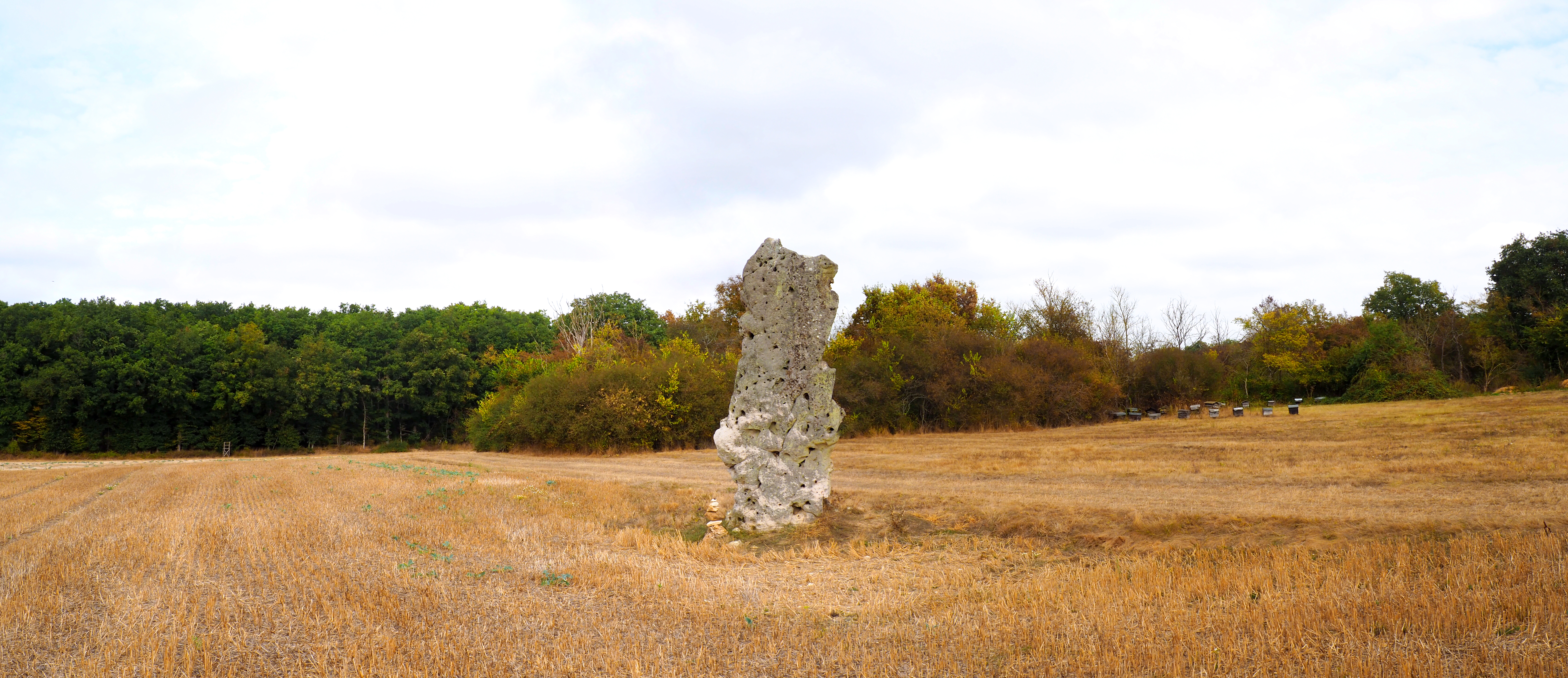 Menhir called Grande Pierre or Pierre de Minuit (source: Mérimée) .